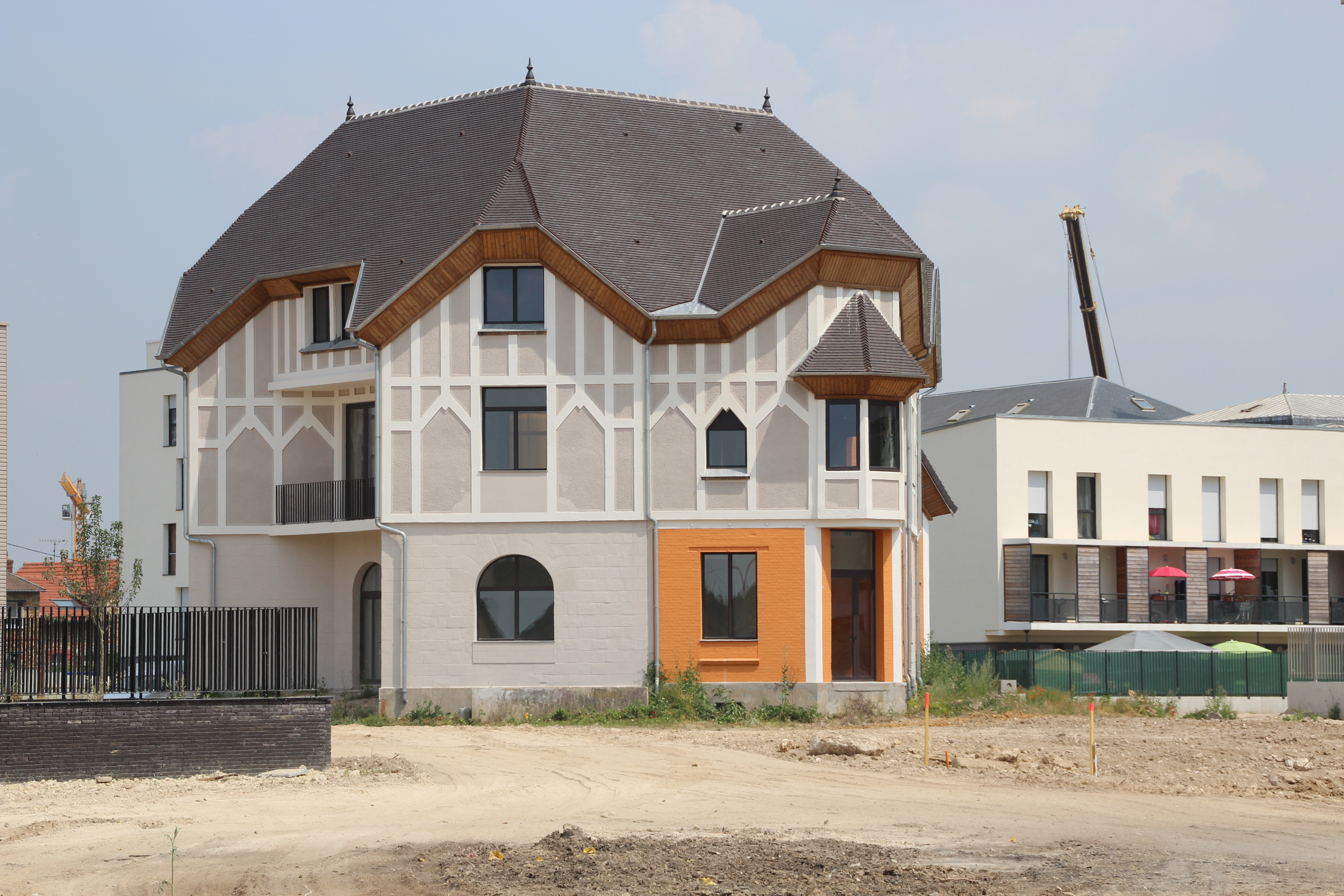 Sorbiers house in Brétigny-sur-Orge, France.